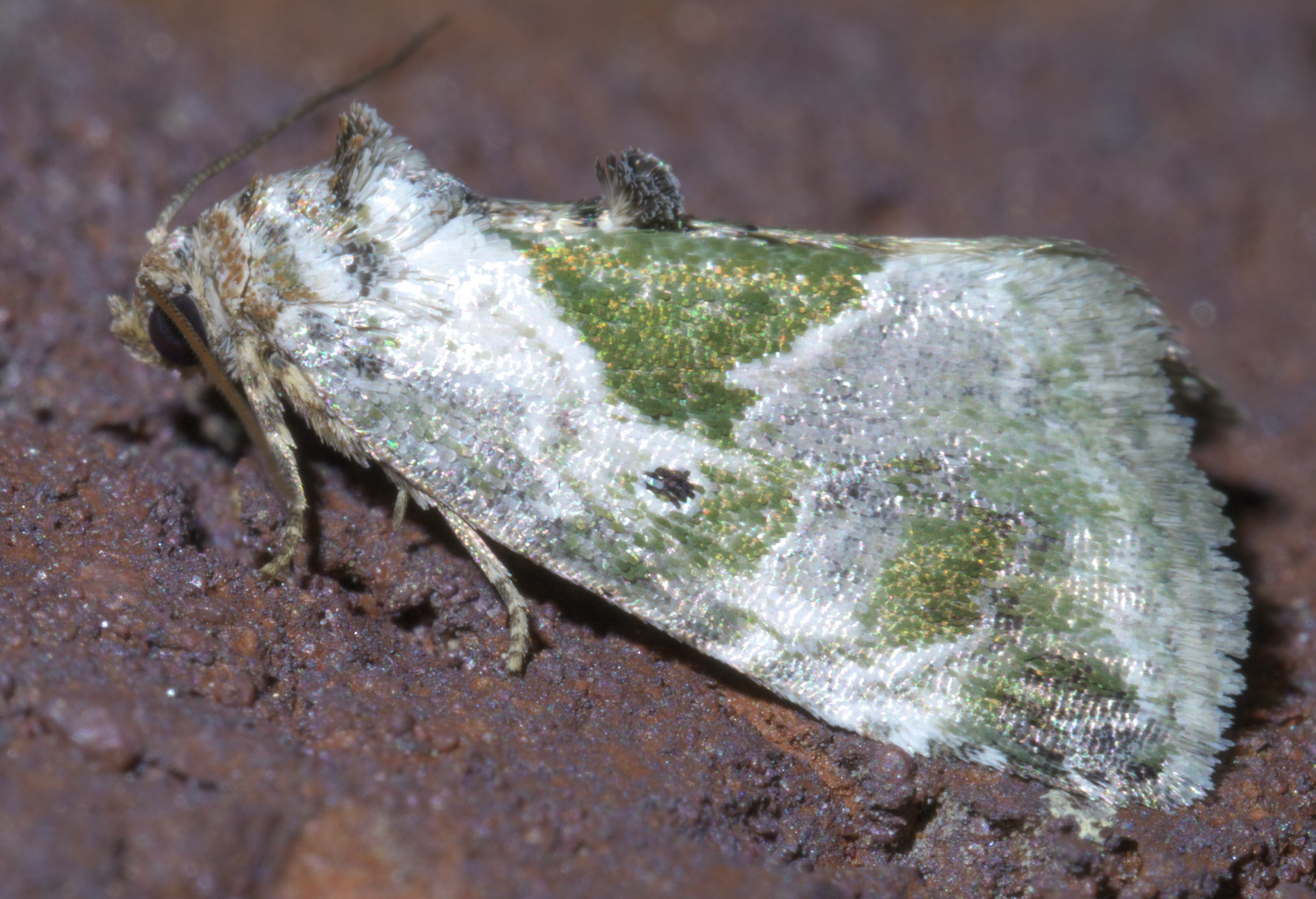 Maliattha synochitis, Black-dotted Maliattha - Hodges #9049, ID Confidence: 94